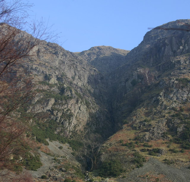 Sandbed Gill. This cleft in the southwest shoulder of Clough Head at the northern end of the Helvellyn range makes an excellent winter ice climb, but is rarely "in condition" due to its low altitude.